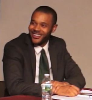 American political candidate Jabari Brisport at the Meet the Candidates Forum by the League of Independent Theater. Screencapped at 34:38.